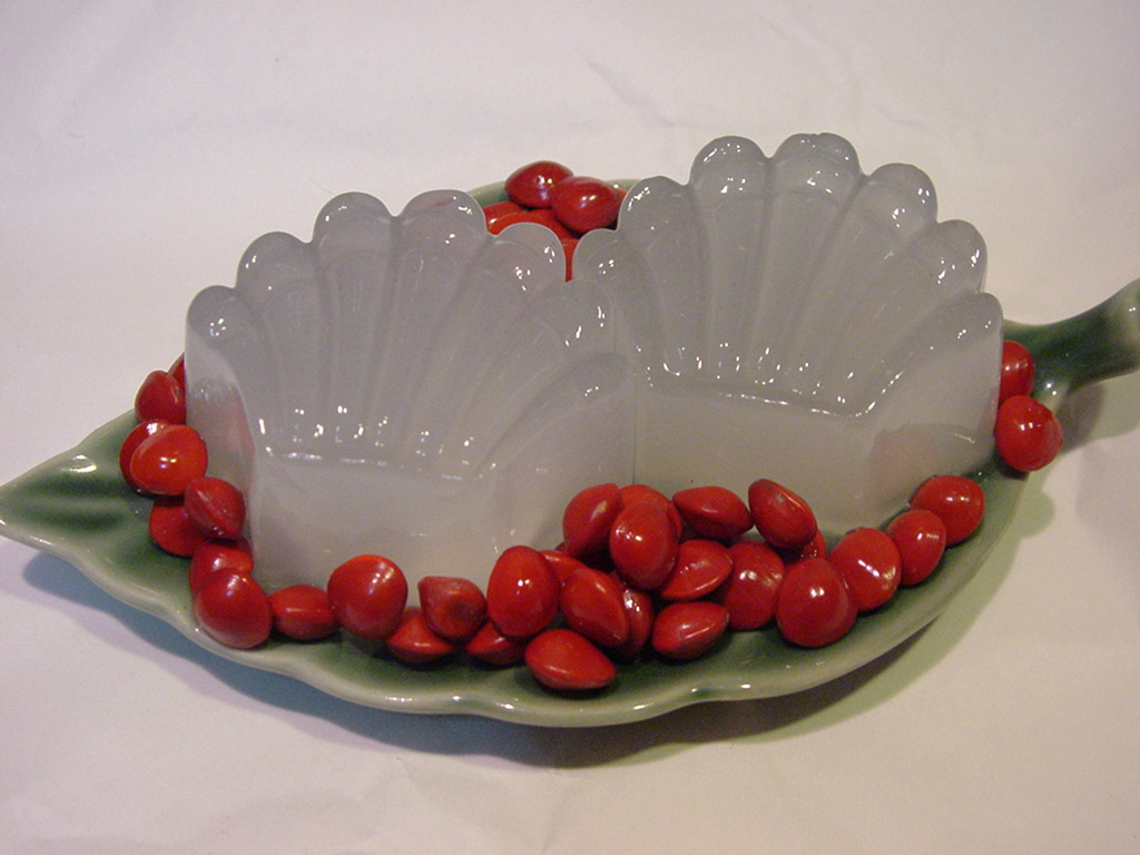 refreshing jelly made from coconut water decorated with red sena seeds